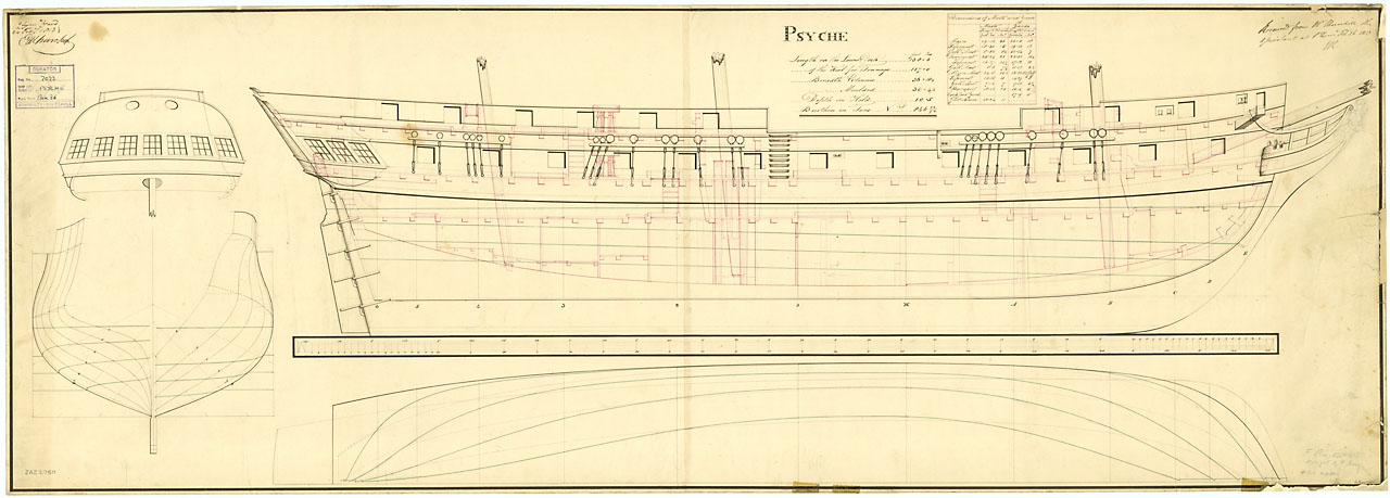 PSYCHE FL.1805 [FRENCH] lines & profile Not located in Progress Book index.